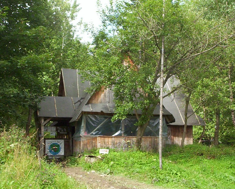 Umbrella roof in tent base in Rabe, Poland